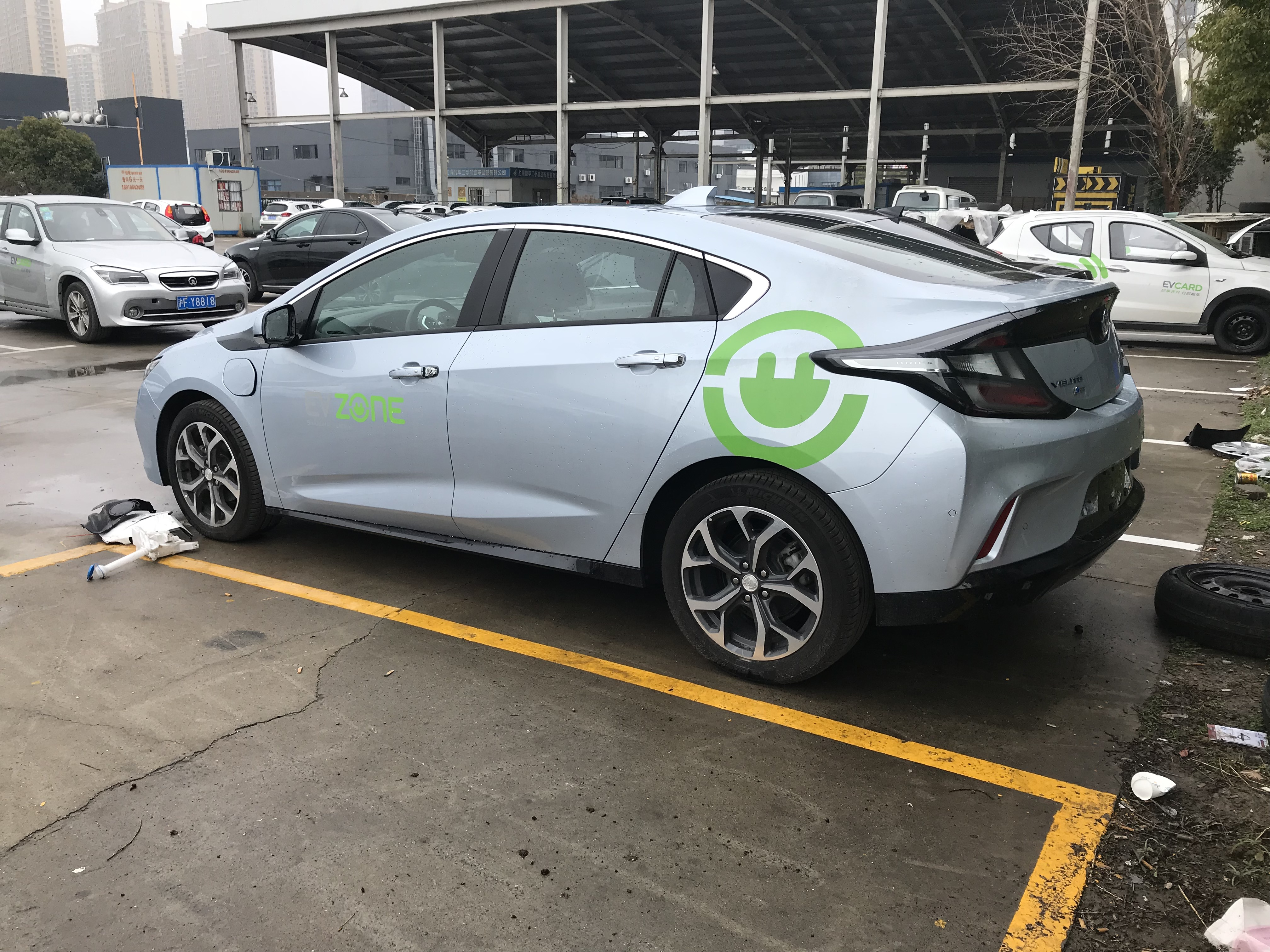 Buick Velite 5 EVCARD.